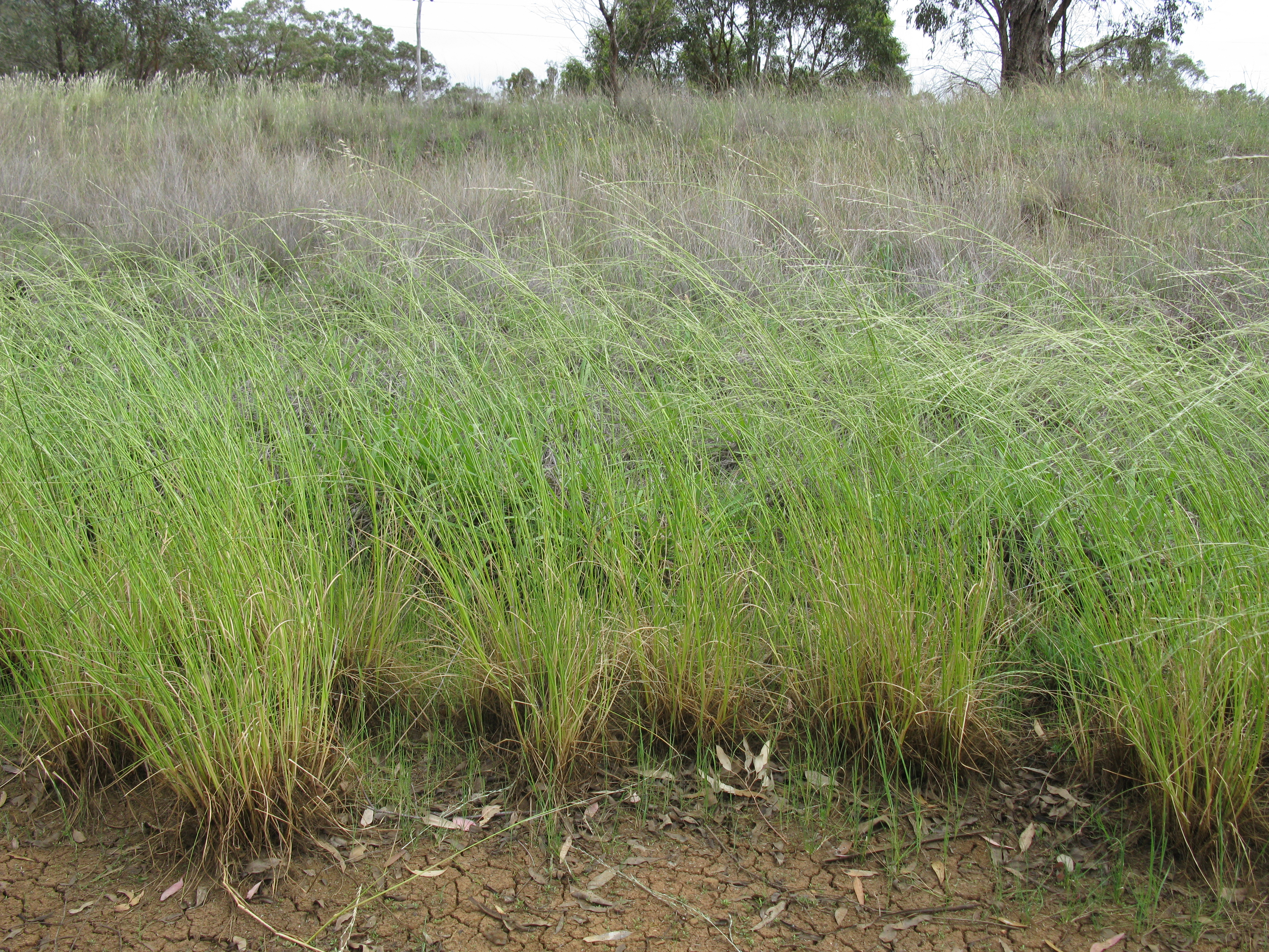 Native, cool season to yearlong green, perennial, tufted grass to 1.3 m tall. Leaf sheaths are ribbed; blades are linear, 1.5–3.5 mm wide, hairless to rough to touch and the upper surface is deeply ribbed. Ligules are 10-20 mm long membranes. Flowerheads are slender, erect to drooping panicles 20-50 cm long. Spikelets are 4-6-flowered and 10-16 mm long (excluding awns). Each floret has a 12-22 mm long awn which arises from the top 40–60% of the lemma; the awn is straight when young, but becomes bent and twisted with maturity. Flowering is mostly in spring, but can ocur any time in response to rain or flooding. Mostly found on the banks of rivers, drains and dams; usually where trees are sparse or absent. Native biodiversity. Rarely abundant and tends to occur in small localised patches, so rarely important for livestock. Palatable, readily grazed and tends to disappear with uncontrolled grazing. Little else is known about its feed value or management.